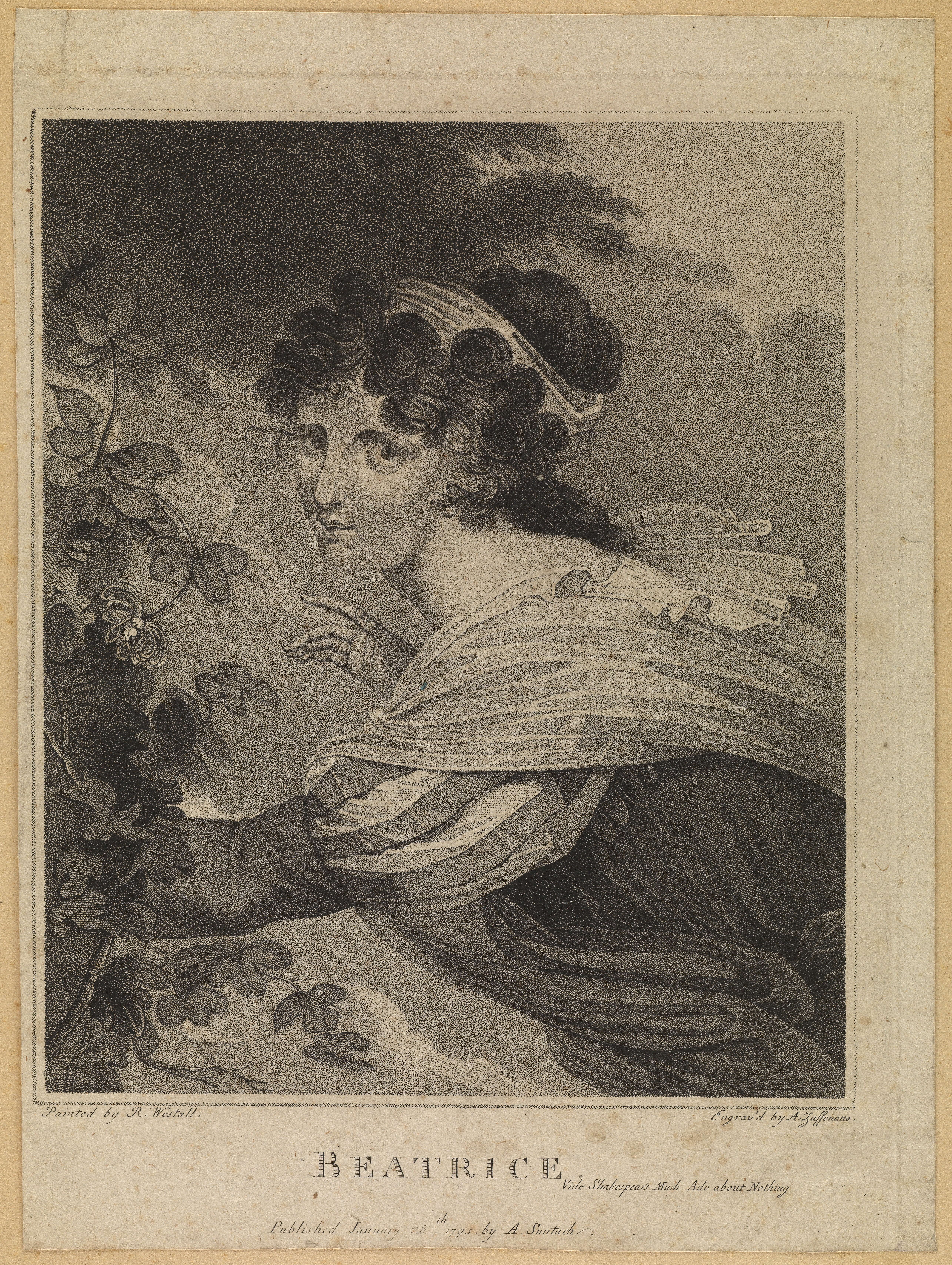 Beatrice, in Shakespeare's Much ado about nothing. Stipple engraving by A. Zaffonato, 1795, after R. Westall. Iconographic Collections Keywords: Richard Westall; Alessandro. Zaffonato; William Shakespeare